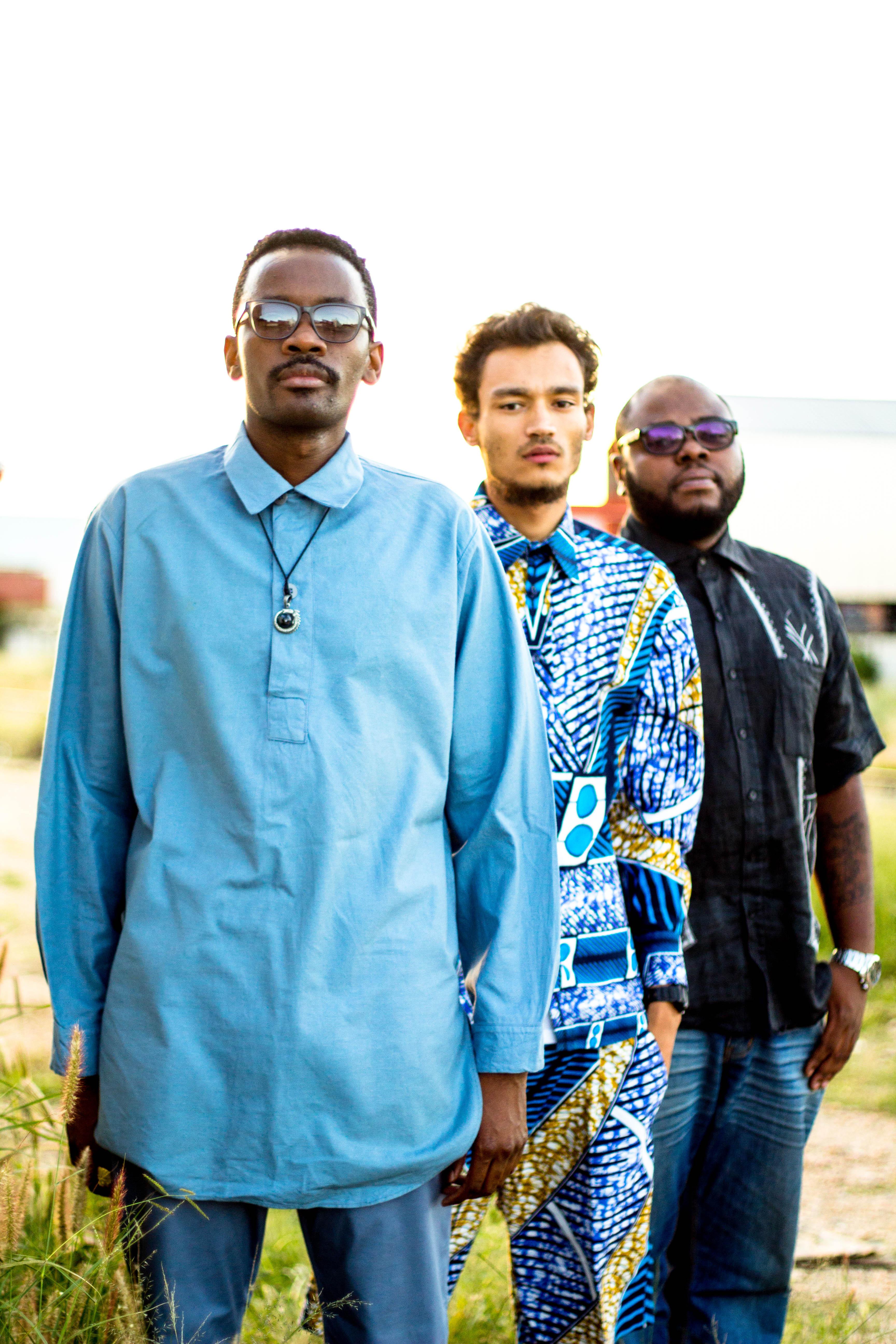 Photo of Black Vulcanite, Mark Question, AliThatDude and Okin17